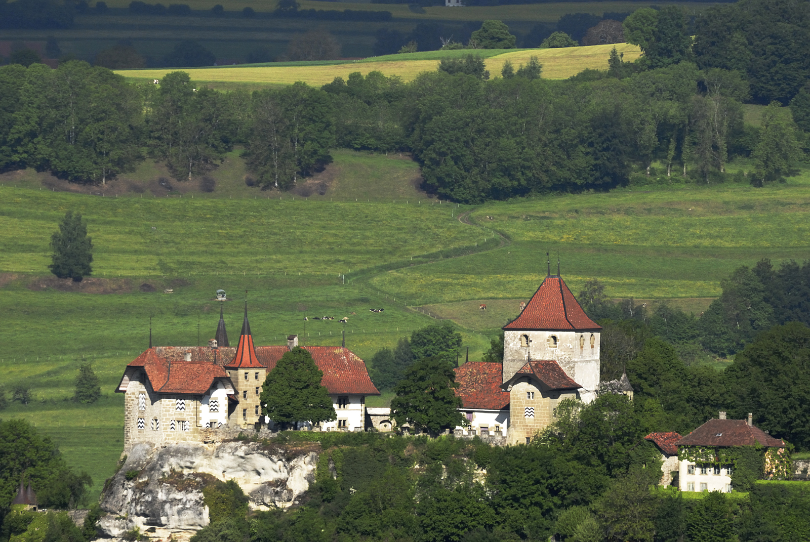 Rue castel, Fribourg area, Switzerland